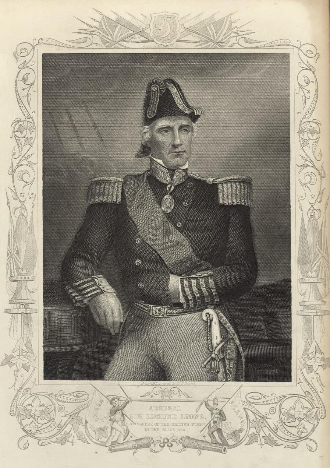 A portrait from the Welsh Portrait Collection at the National Library of Wales. Depicted person: Edmund Lyons, 1st Baron Lyons – Royal Navy admiral